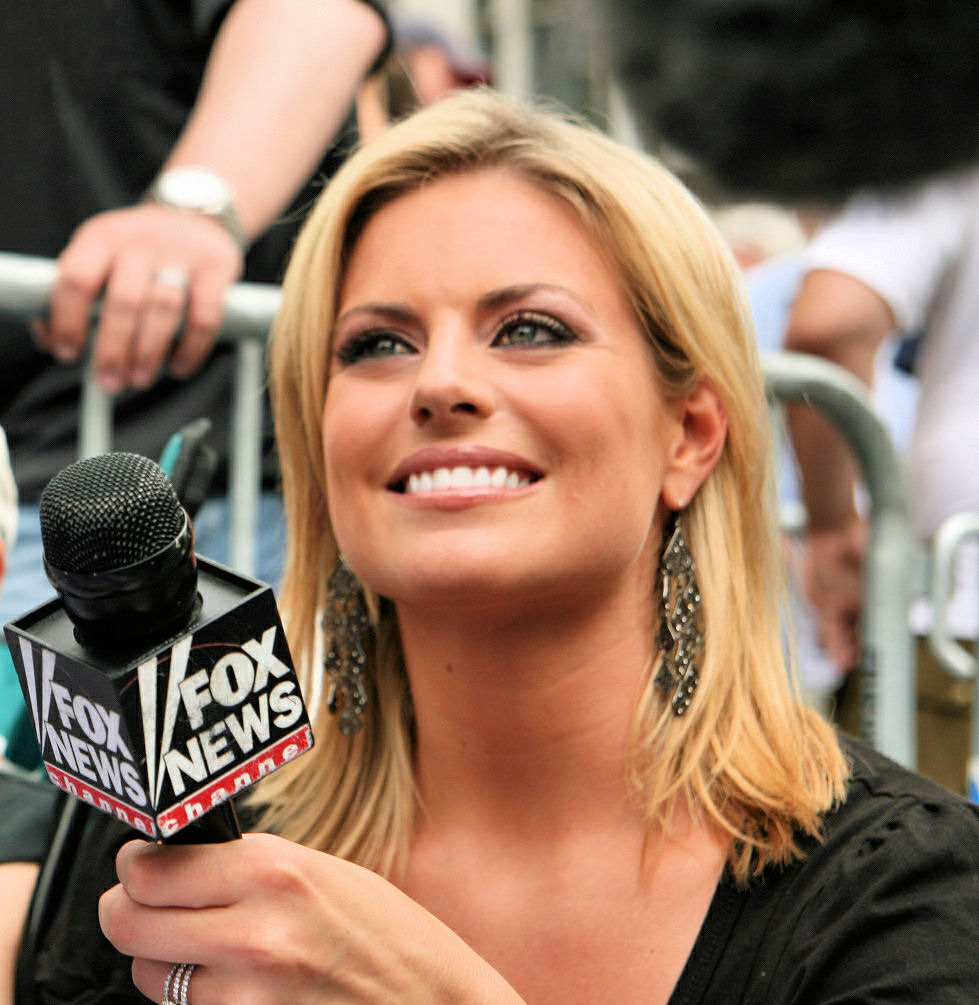 Courtney Friel in New York during the release of the iPhoneIntervista abbagliante